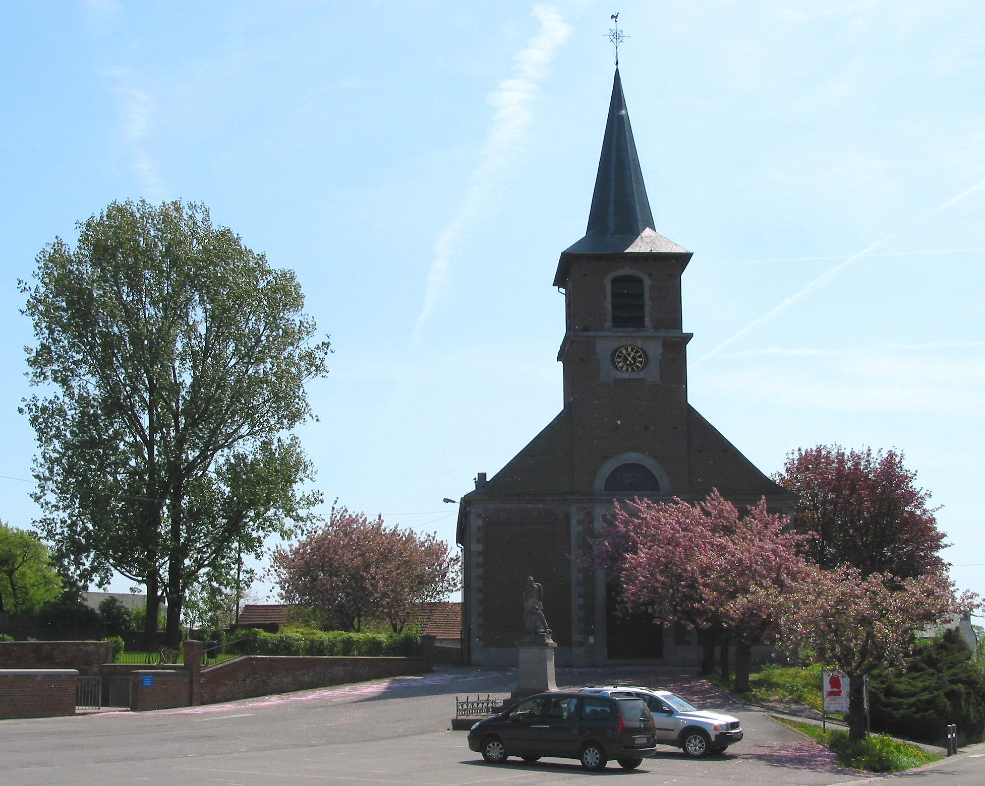 Grand-Leez, the Saint Amand's church (1786). Walon: Grand-Lé, l’èglîje Sint-Amand (1786).